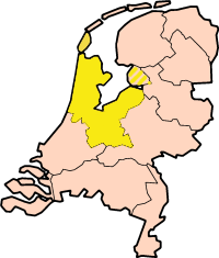 Superprovince as proposed by Rutte II Government, compromising the current pronces of Flevoland, Utrecht and North-Holland. Image was taken from User:Snowdog